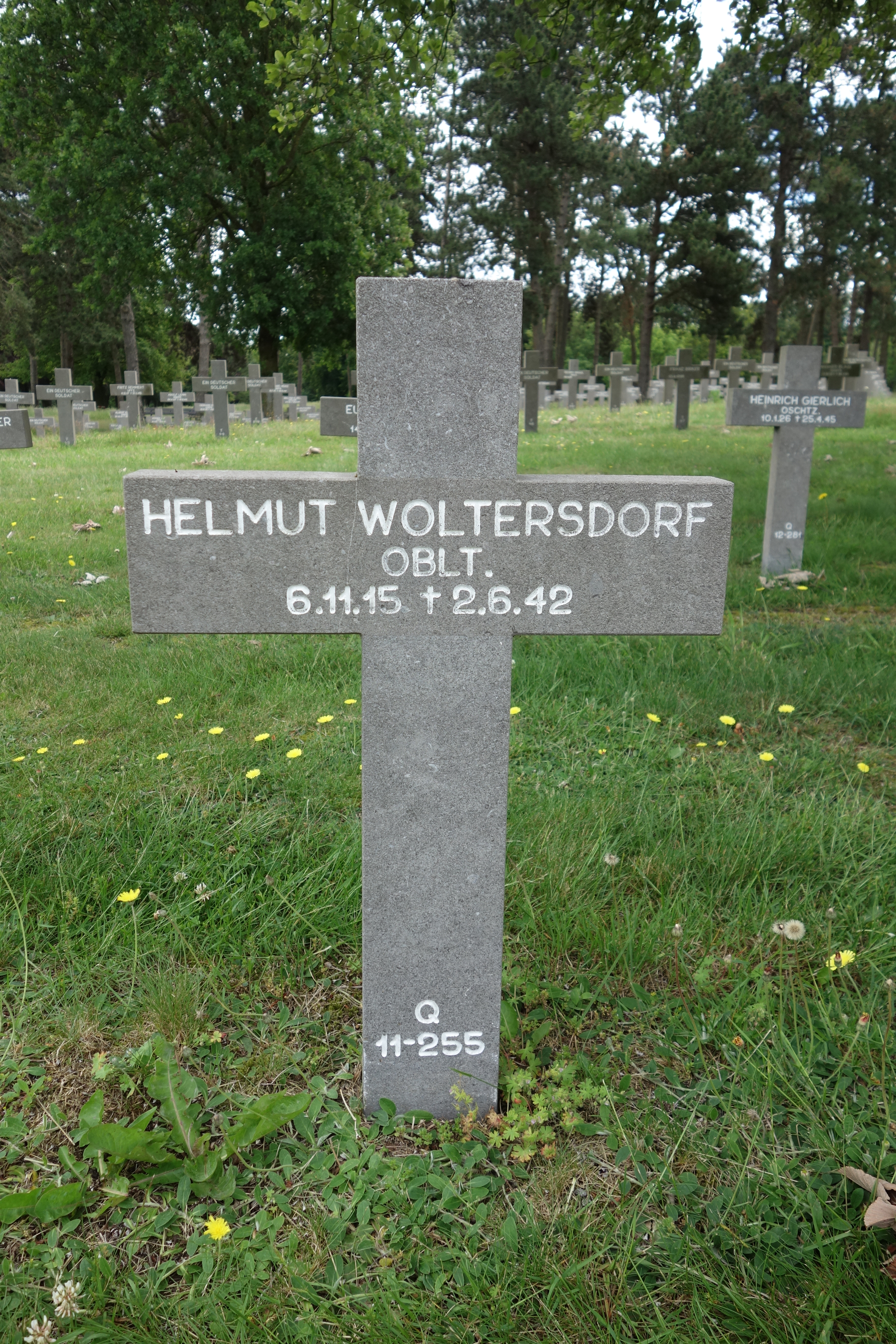 Grave of Helmut Woltersdorf Q-11-225